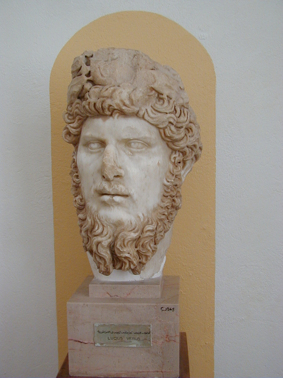 Ancient Roman bust of emperor Lucius Verus, from Dougga, in the Bardo National Museum (Tunis).